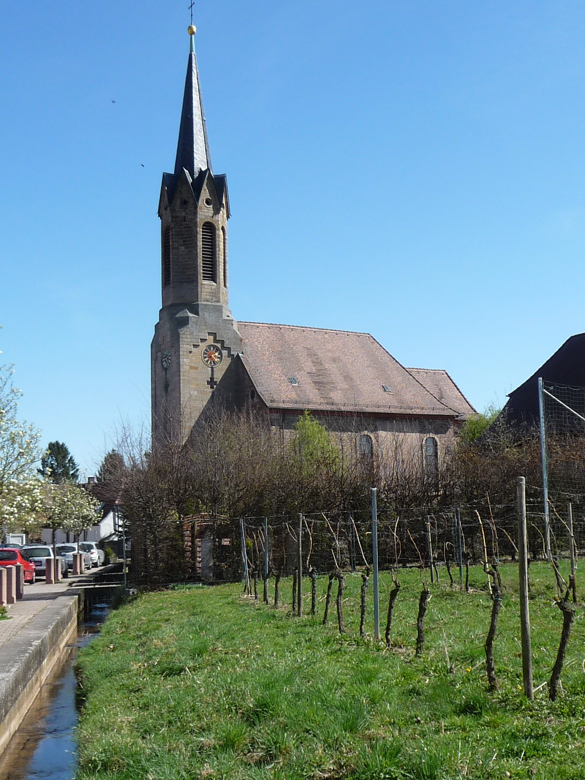 catholic church of Großfischlingen in Rhineland-Palatinate, Germany